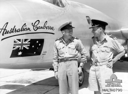 Wing Commander D.R. Cuming, the commander of No. 1 Long Range Flight RAAF, (at left) with Group Captain Brian Eaton, the commander of No. 78 Wing RAAF, at Malta during Cuming's flight from Australia to the United Kingdom to participate in the Christchurch Centenary Air Race.